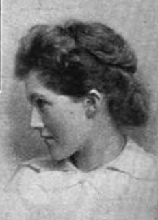 Photo of Helen Augusta Howard from article on National Council of Women of the United States